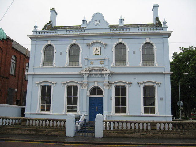 Masonic Hall, Hamilton Road There is evidence that Freemasonry existed in Ireland 500 years ago. The Grand Lodge of Ireland was constituted in 1725 and is the second oldest Grand Lodge in the world.